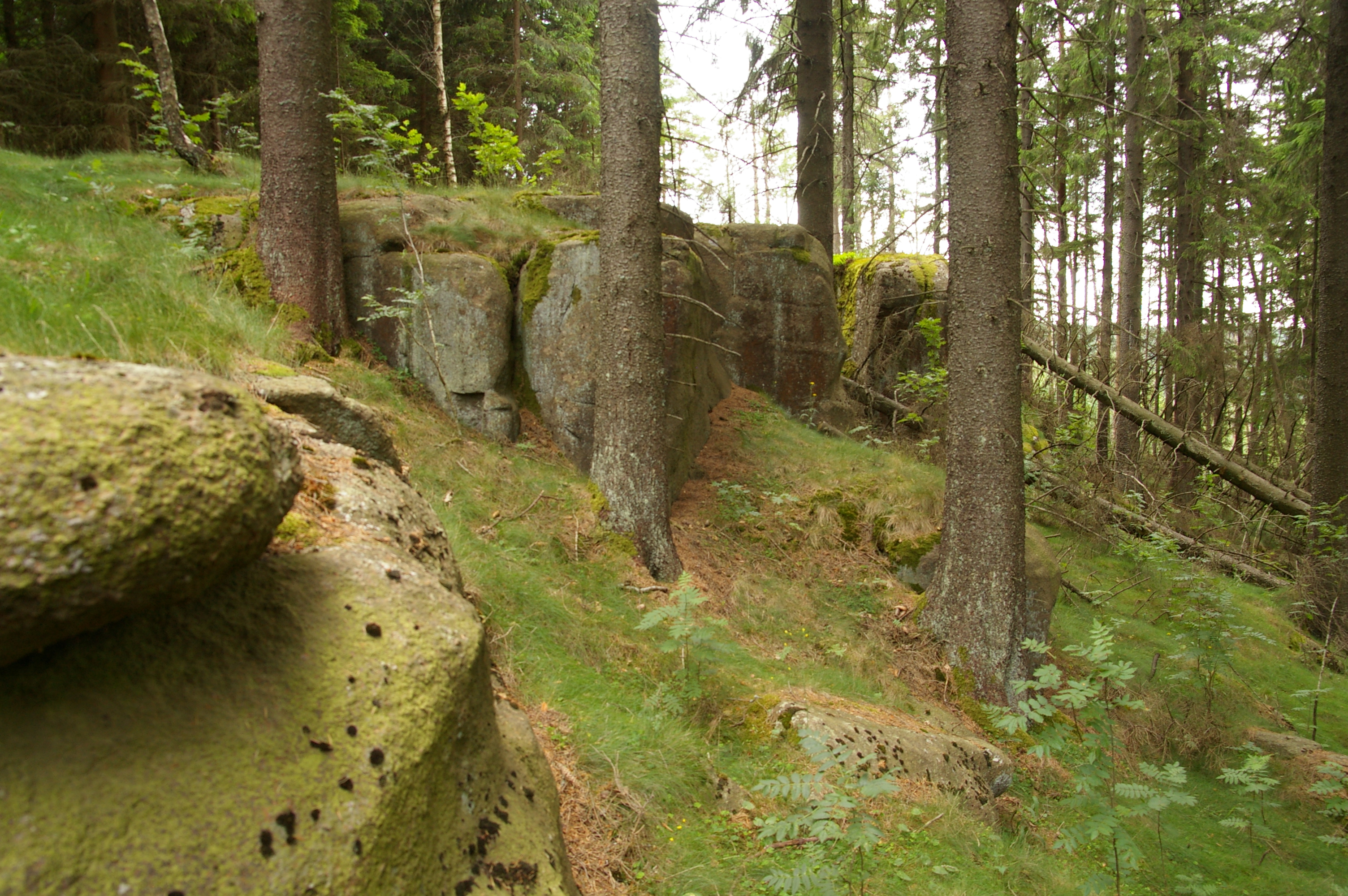 Träleborg hill fort, Mösseberg, Falköping, Sweden